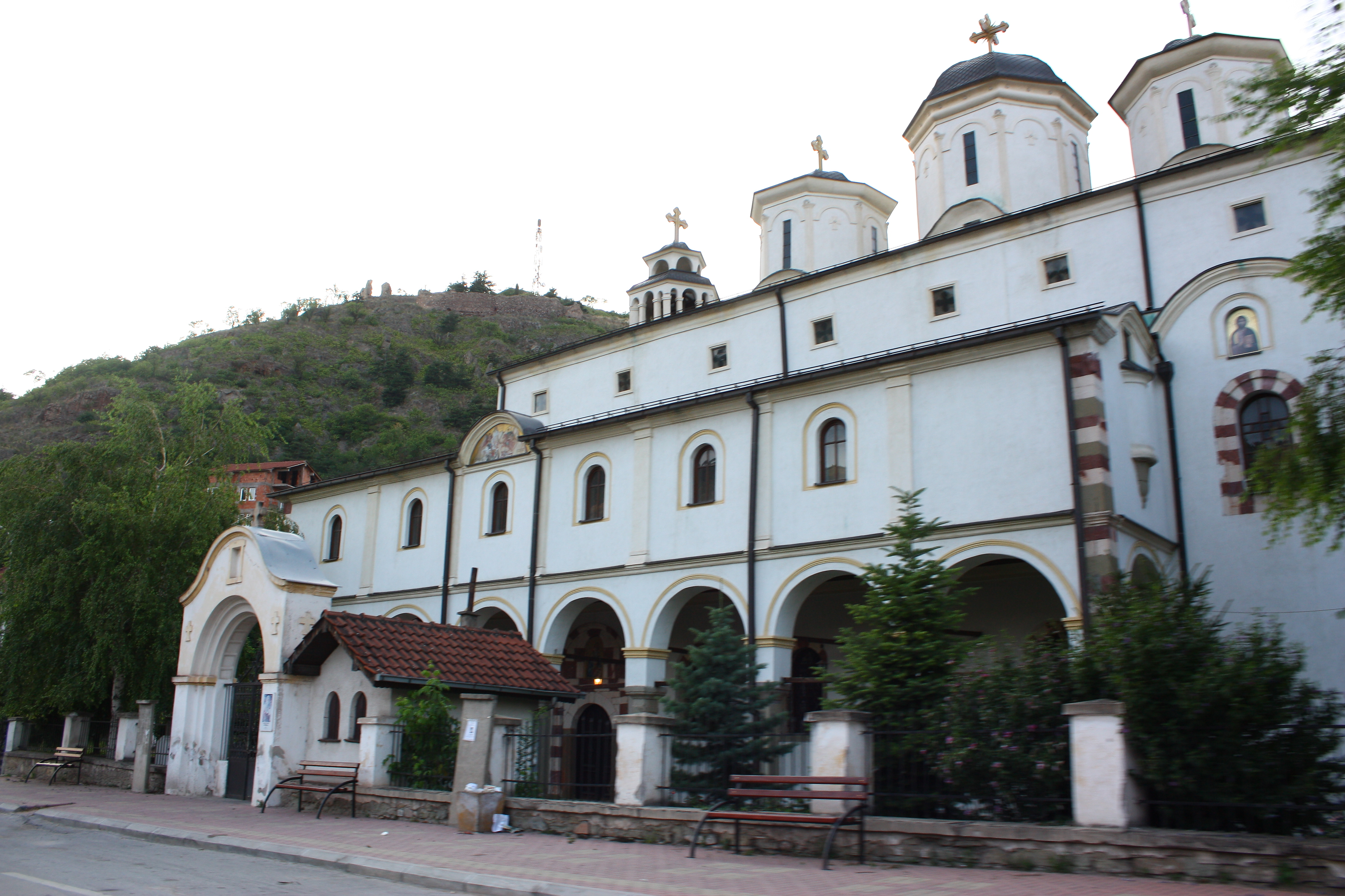 Isar St. Nicholas Church in Štip, Macedonia